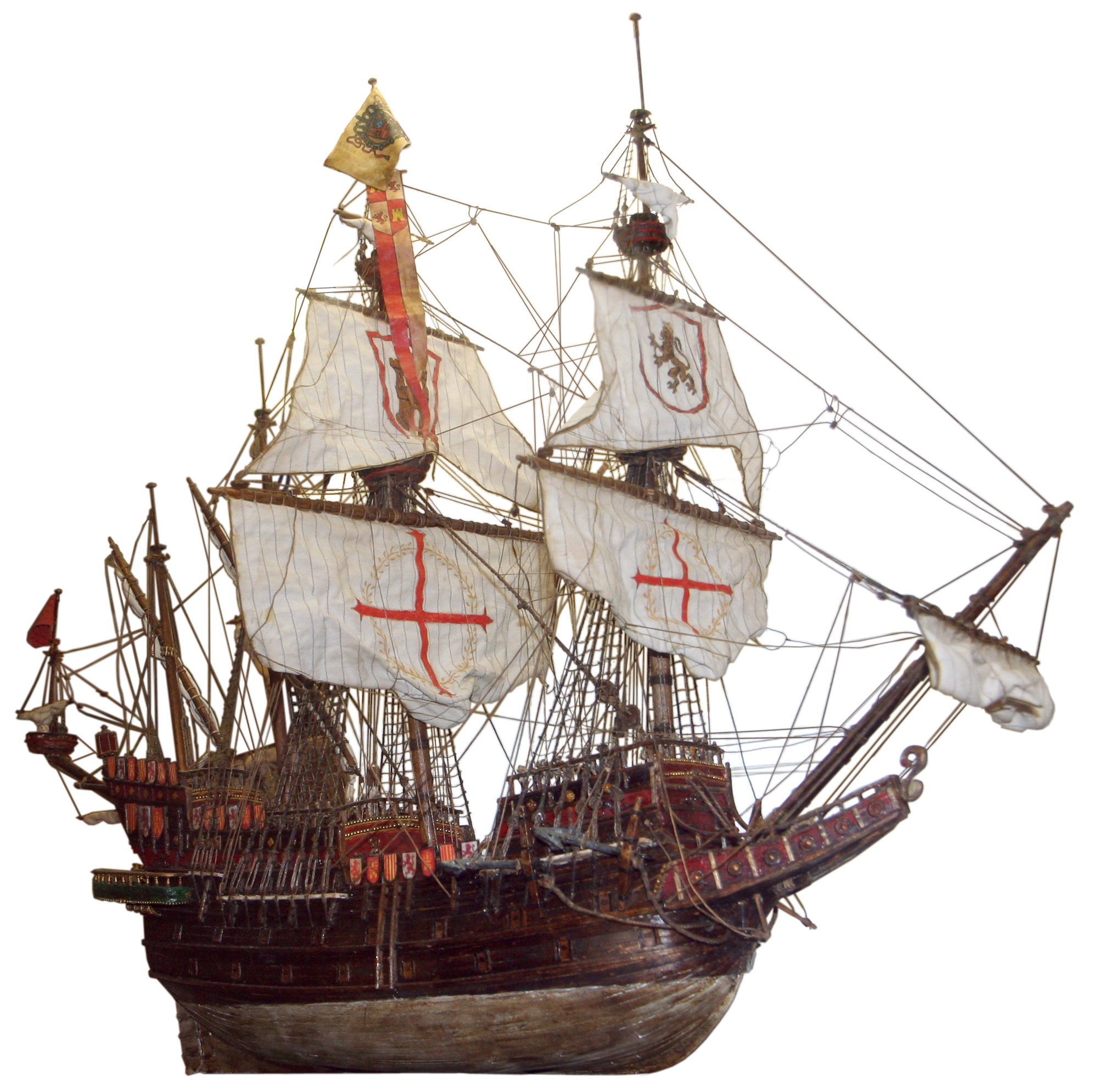 Spanish Galleon, wooden ship model from the Museo Storico Navale di Venezia (Naval History Museum) in Venice, Italy.